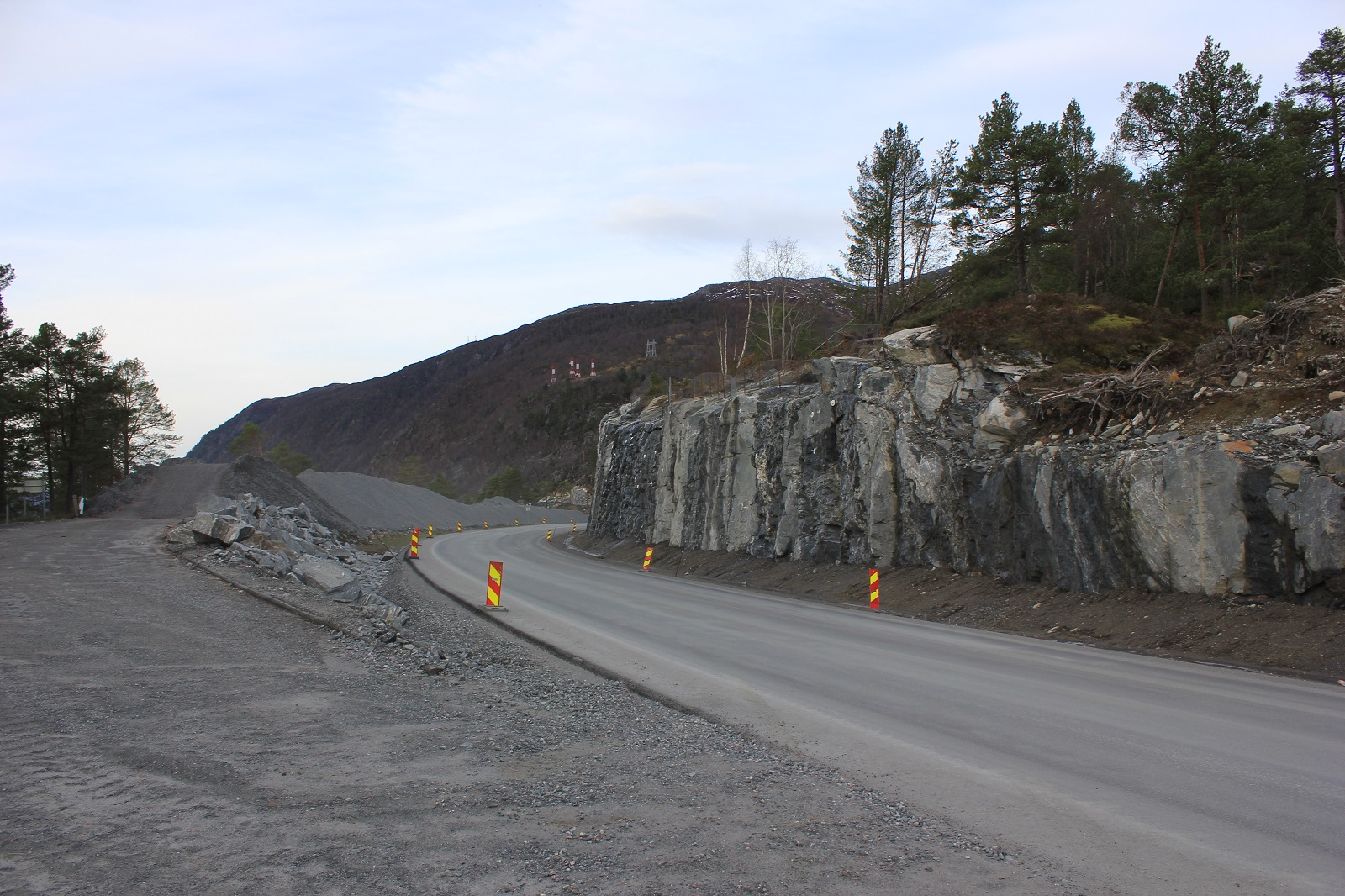 New part of Kvivsvegen